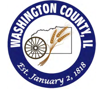 A High Quality image of the Washington County, IL Seal